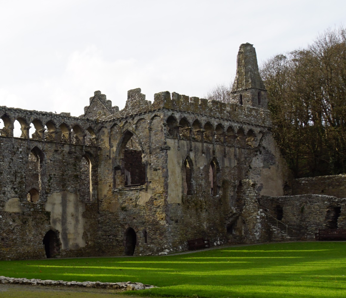 St. Davids Bishop's Palace, St. Davids, Wales, United Kingdom. Great Chapel.